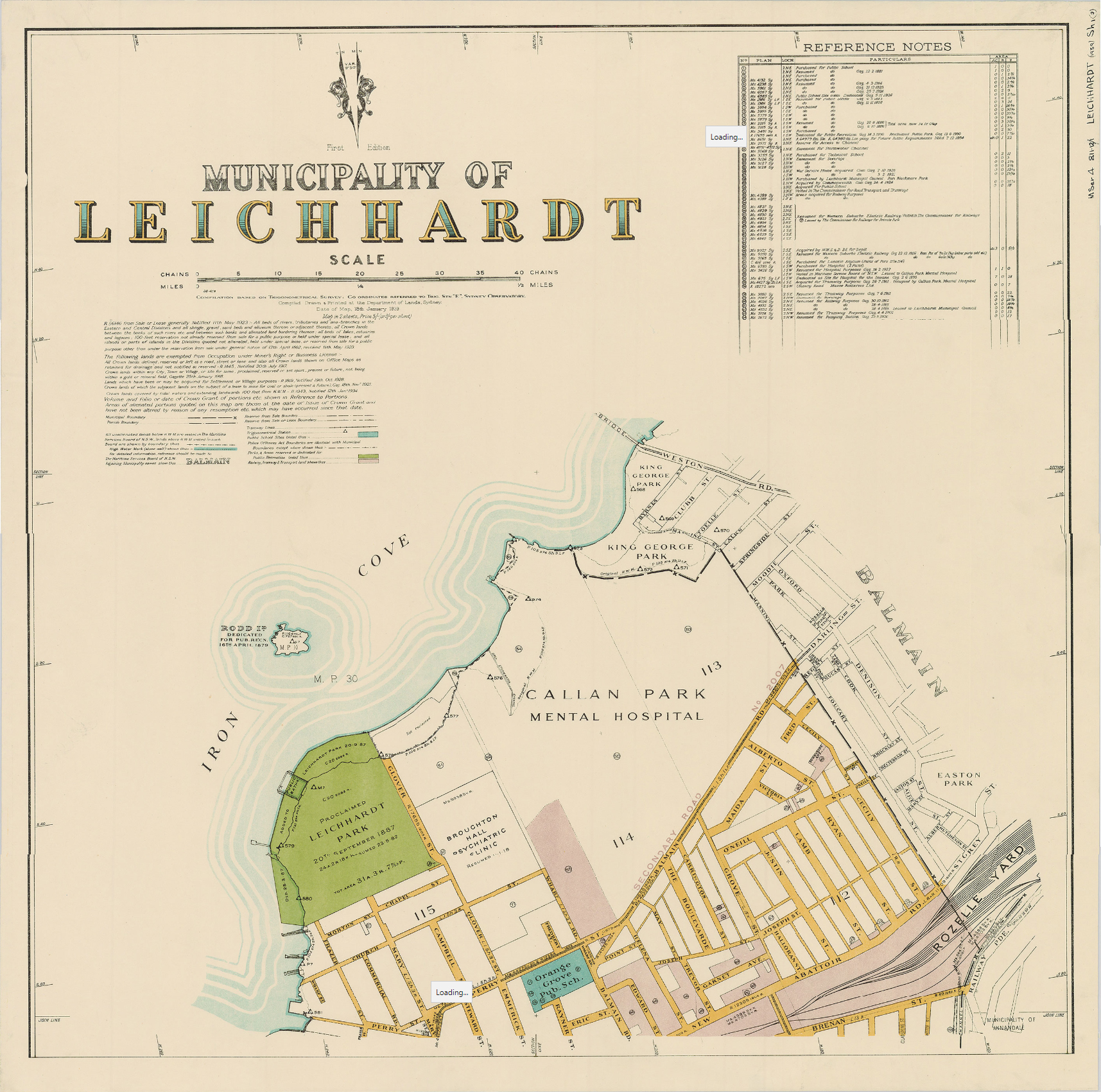 Municipality of Leichhardt Map, printed 1939. Page 1 of 2. The boundaries were proclaimed 3 December 1913. The map was printed 18 January 1939.